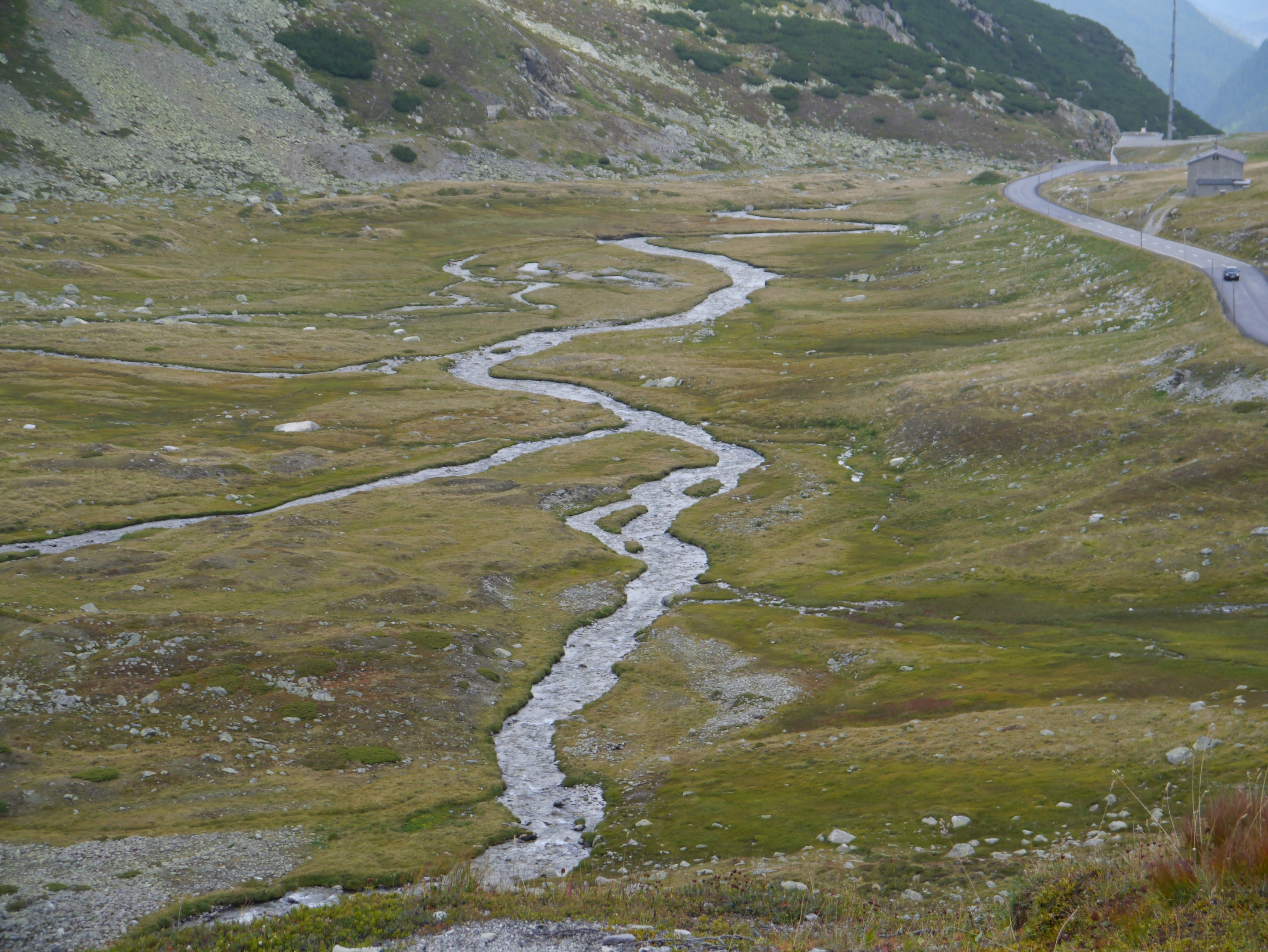 Flüela Pass, Canton of Graubünden, switzerland